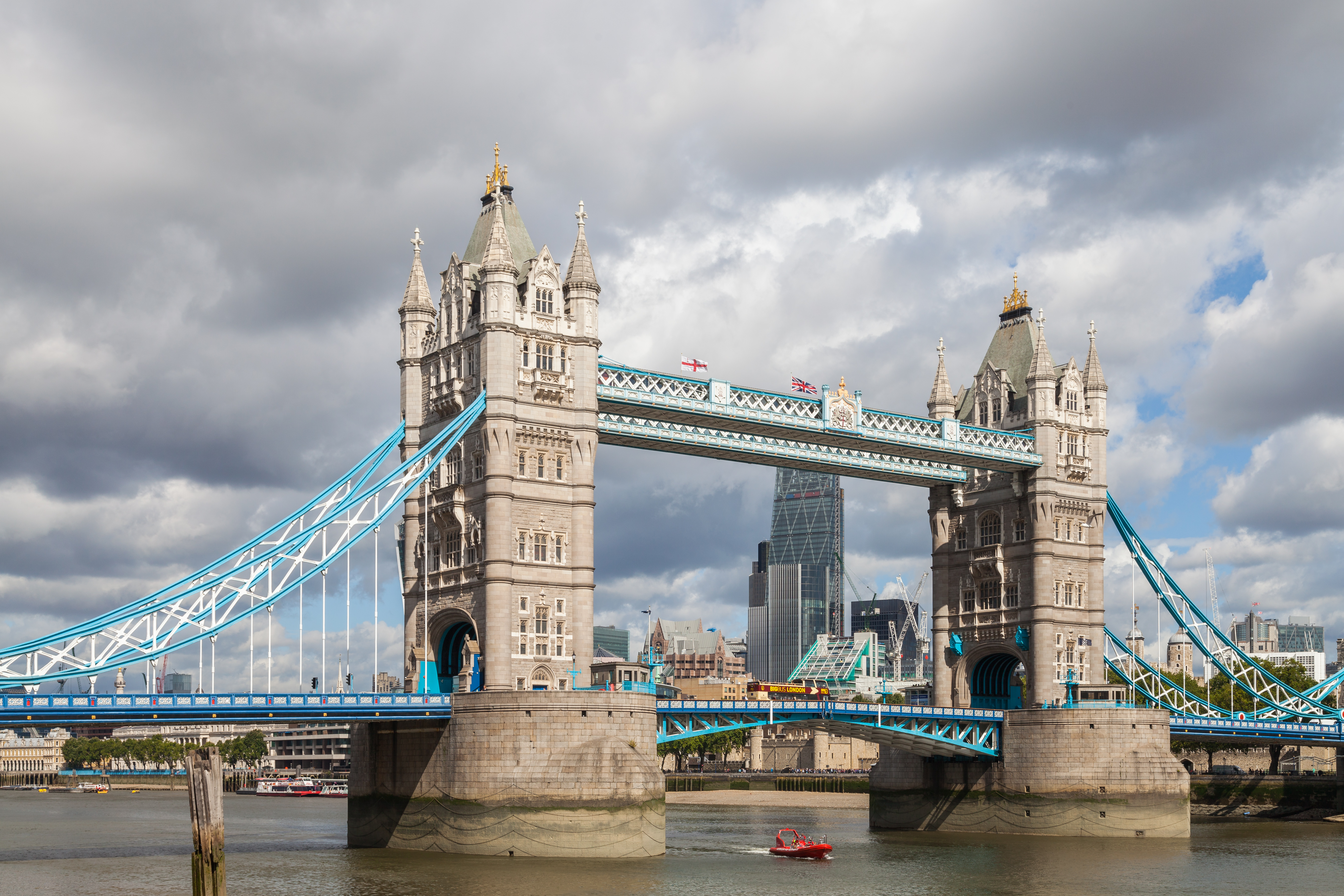 The Tower Bridge is a bascule and suspension bridge located in the center of London that crosses the River Thames. Its name is taken from the Tower of London, located nearby and has become an iconic symbol of London. The bridge was built between 1886 and 1894 and has a length of 244 m (800 feet) and the height of the towers is 65 m (213 feet). The 61 m (200 feet) long central span is split into two equal bascules than can be raised 86 degrees to allow the transit of ships. Otherwise the bridge is open to the traffic and to the pedestrians.